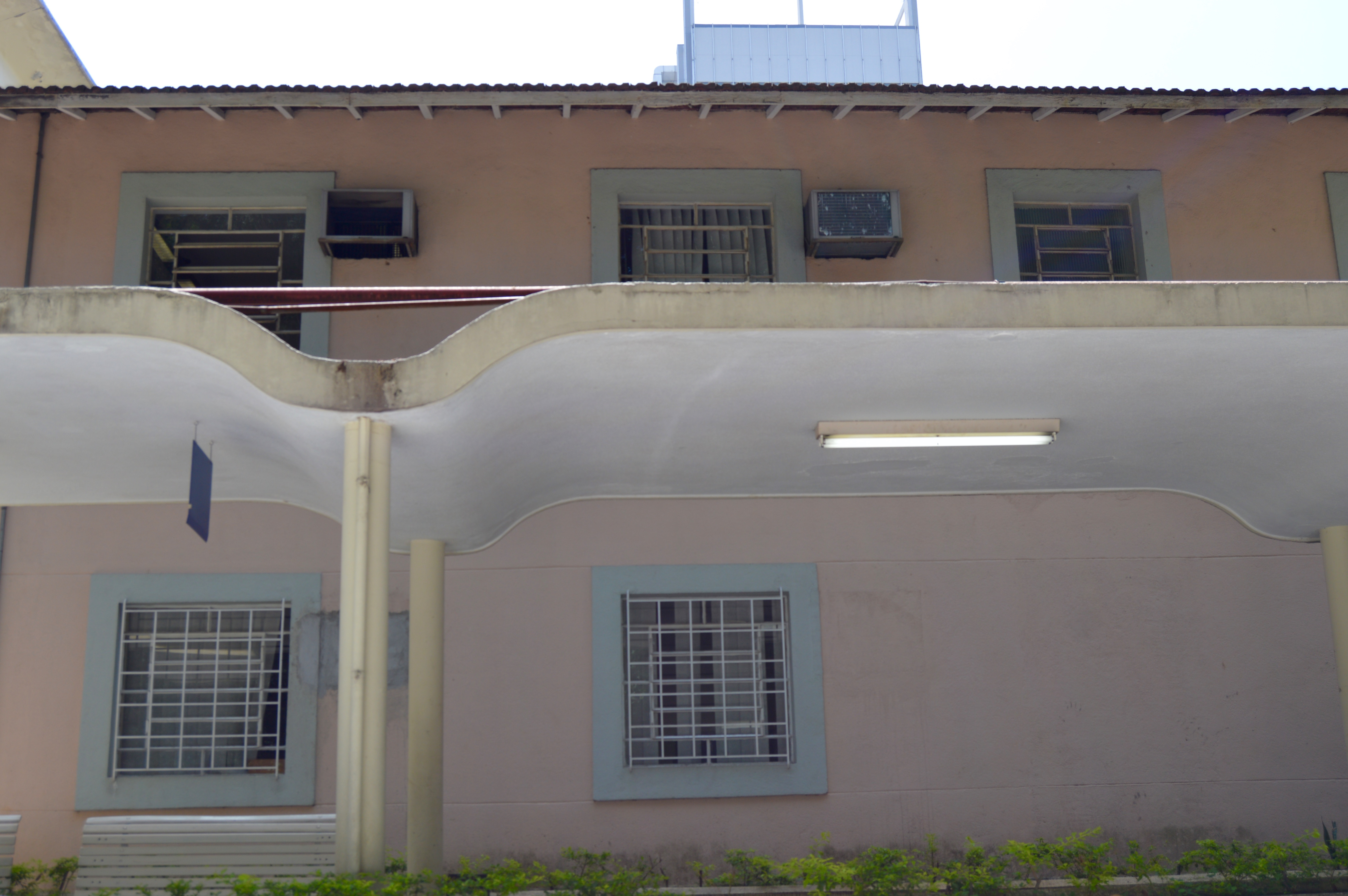 Front Side of the second building